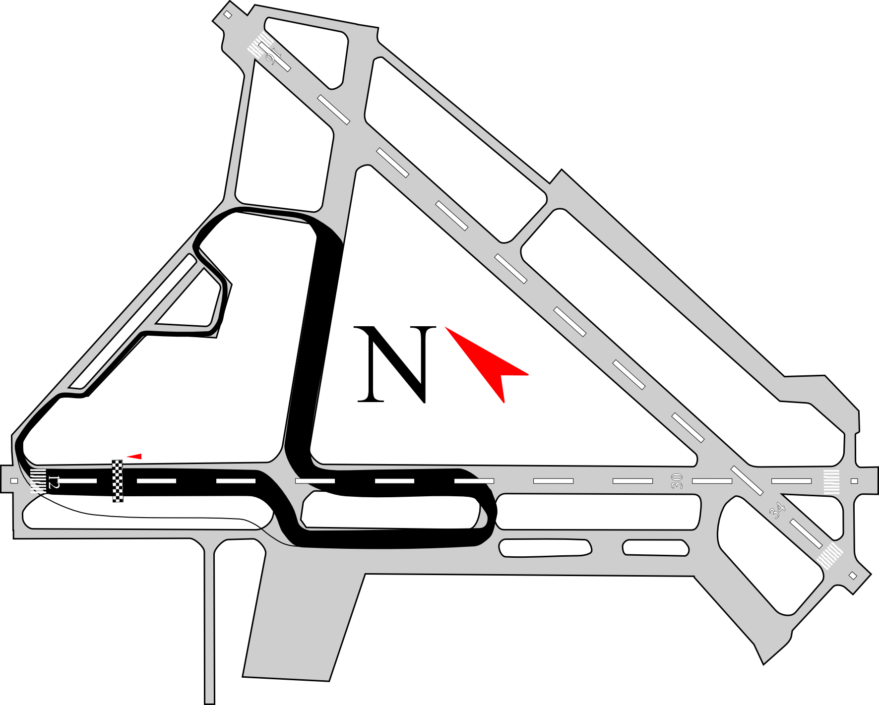 PNG to get around Bugzilla:14953 that prevents Image:Edmonton City Airport map with the racing road course map overlaid.svg from working. If RSVG renders that image so that it matches this one, please change all usages of this image to the other and delete this image.